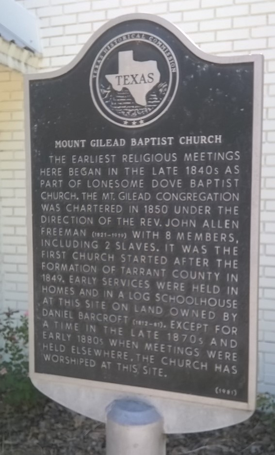 Keller Texas Mount Gilead Baptist Church historical marker